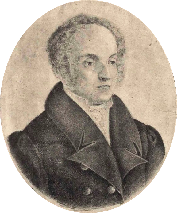 Simon Lämel (1766-1845), austrian merchant and banker